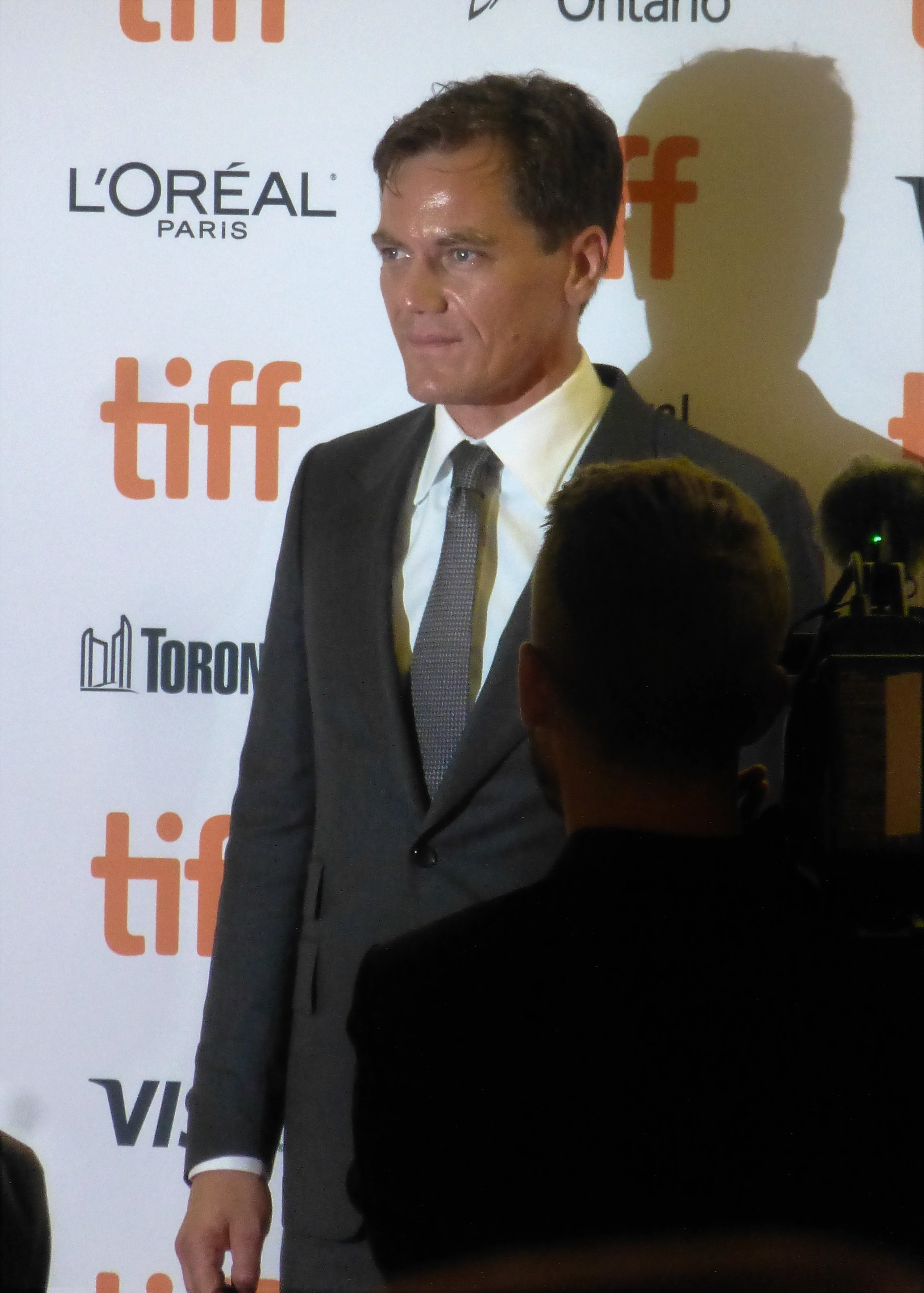 Michael Shannon at the premiere of Nocturnal Animals, 2016 Toronto Film Festival